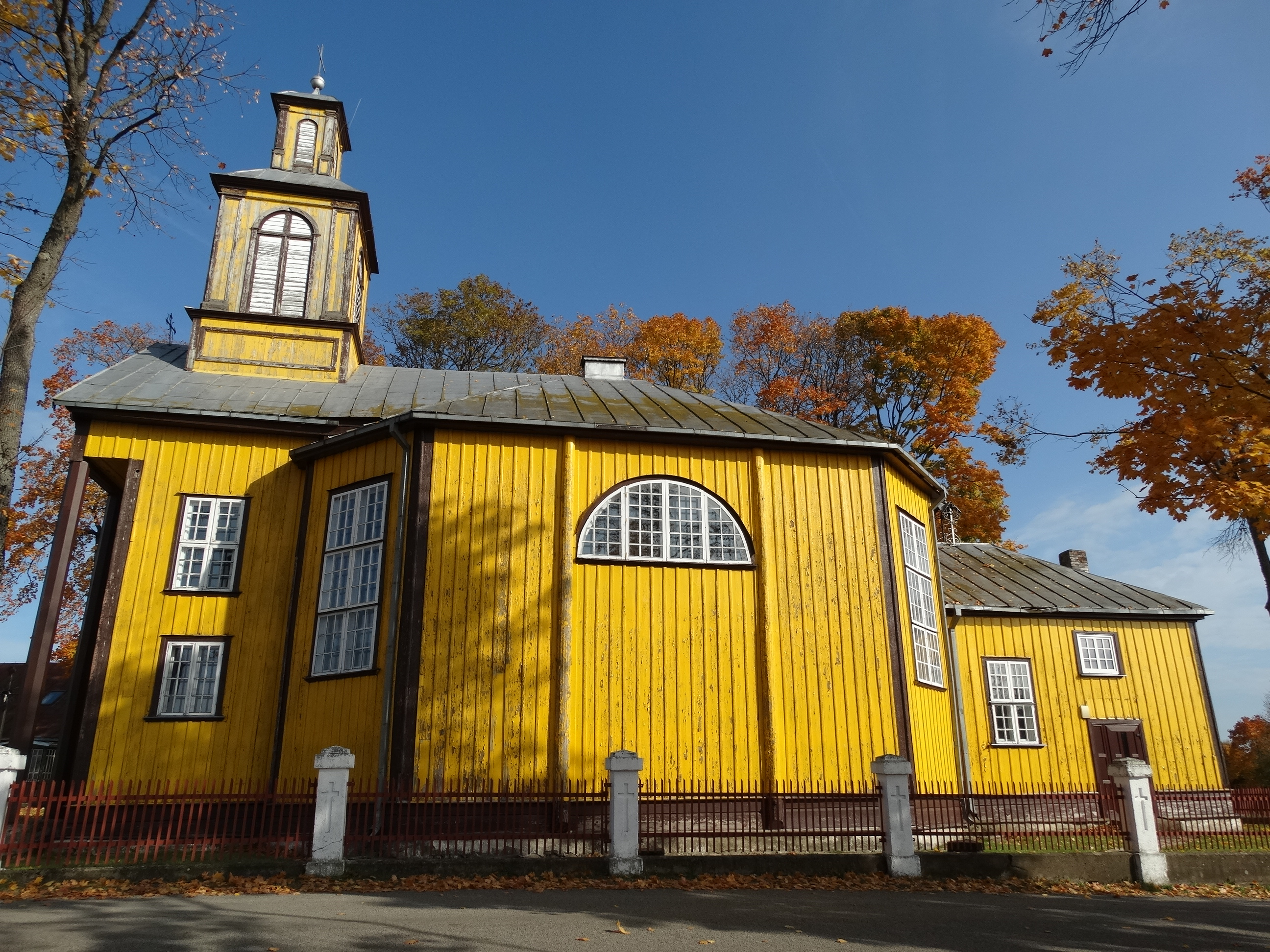 Roman Catholic Church, Šventežeris, Lazdijai district, Lithuania